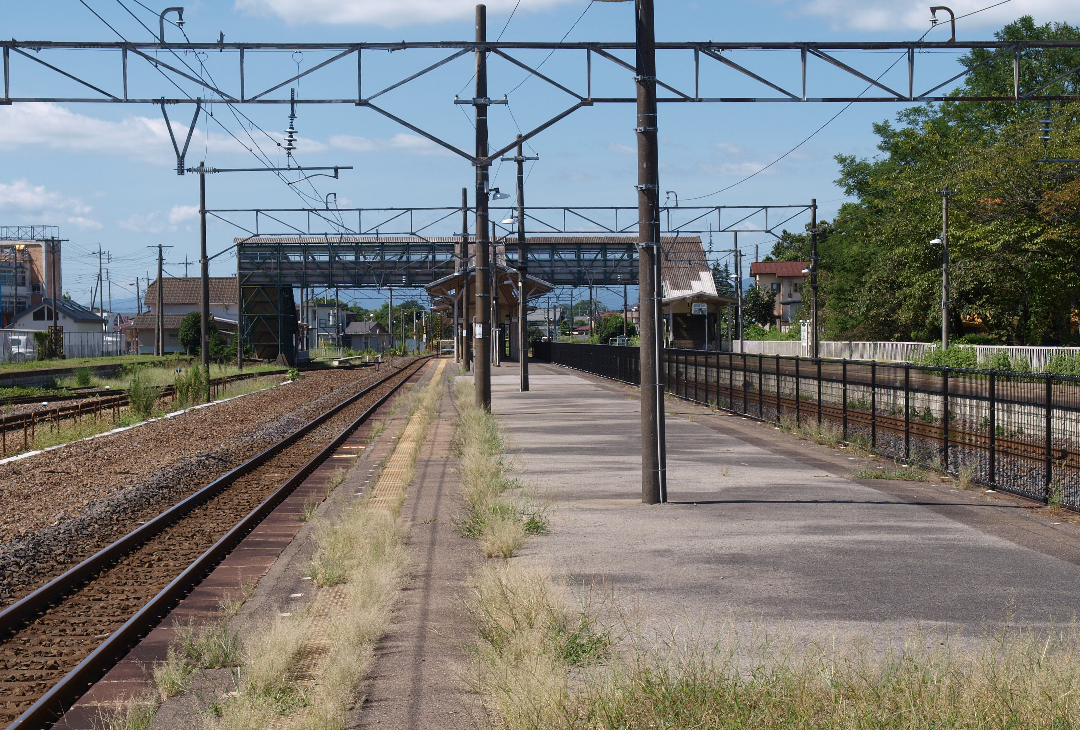 Platform at Kurodahara Station